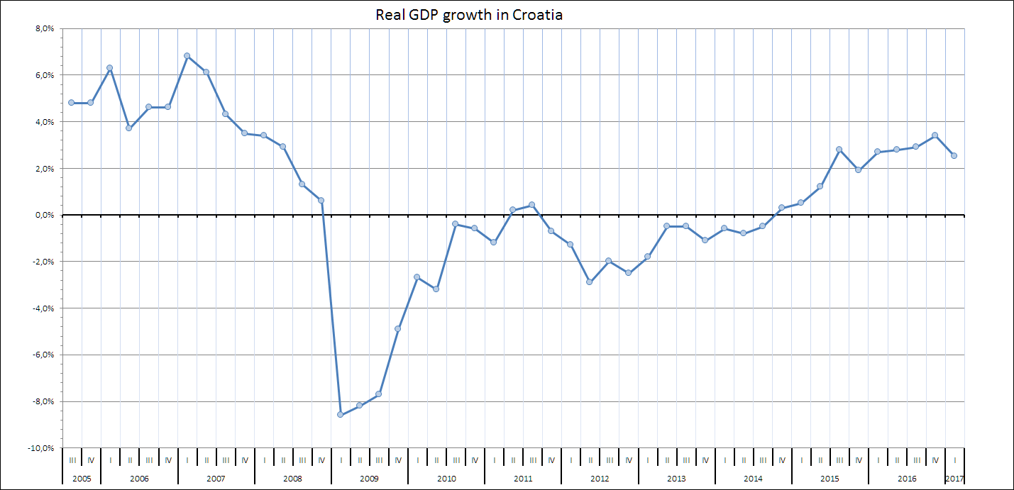 Real GDP growth in Croatia 2005 - 2017, by quarters.